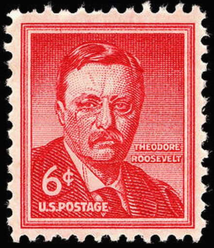 US Postage stamp: Theodore Roosevelt, Issue of 1955, 6c